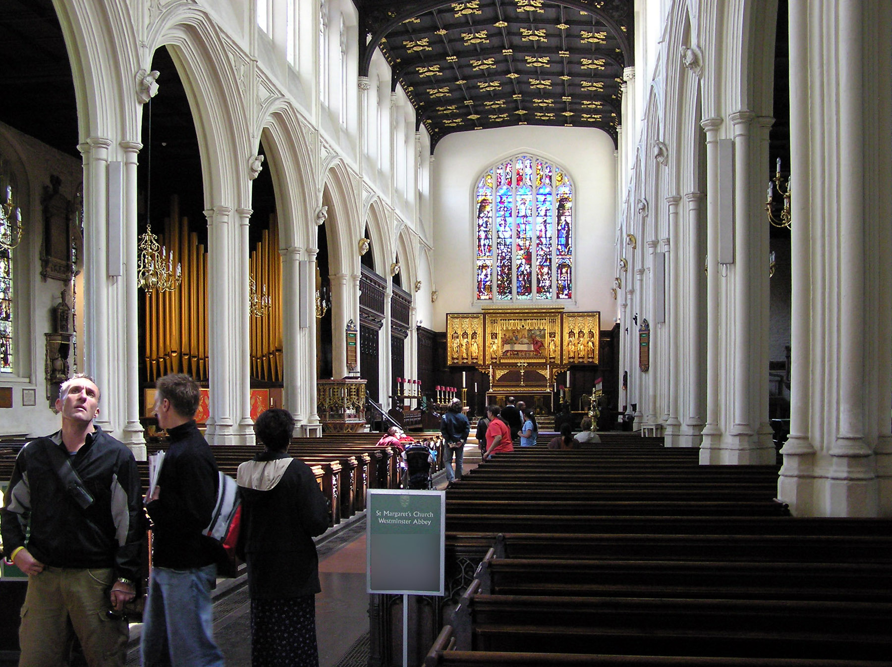 The nave of Saint Margaret’s Church, Westminster, London, England. Photographed by Adrian Pingstone in June 2005 and placed in the public domain.